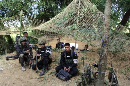 cdts in the qut door ex